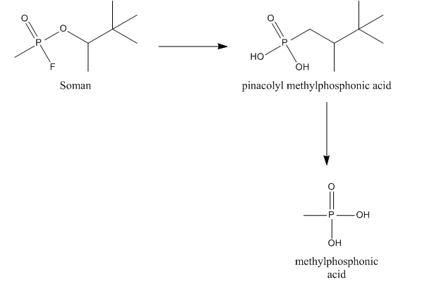 The metabolisim of soman. Reference in the article of soman.